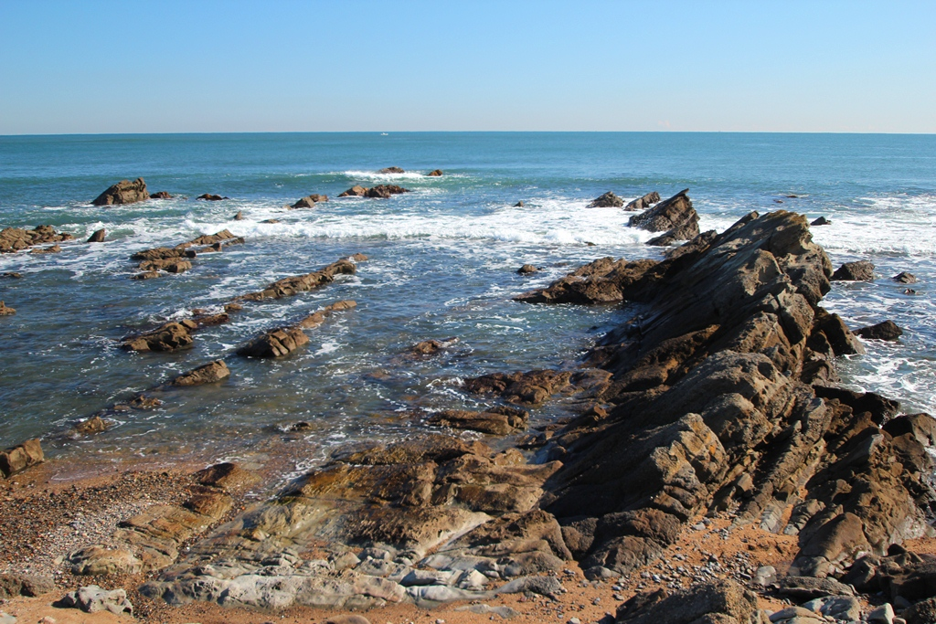 Hiraiso Coast in Hitachinaka City, Ibaraki Prefecture, Japan